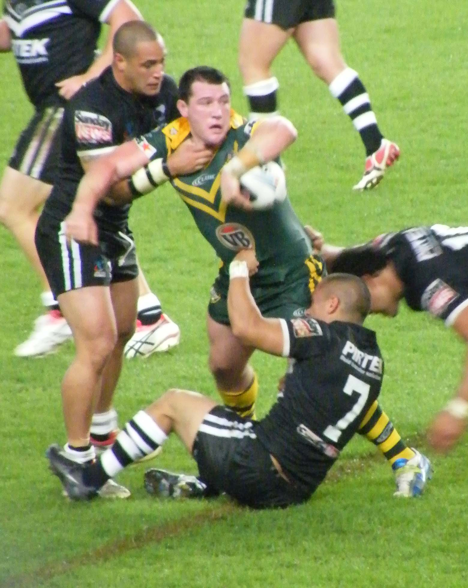 Australian forward Paul Gallen, RLWC 2008.